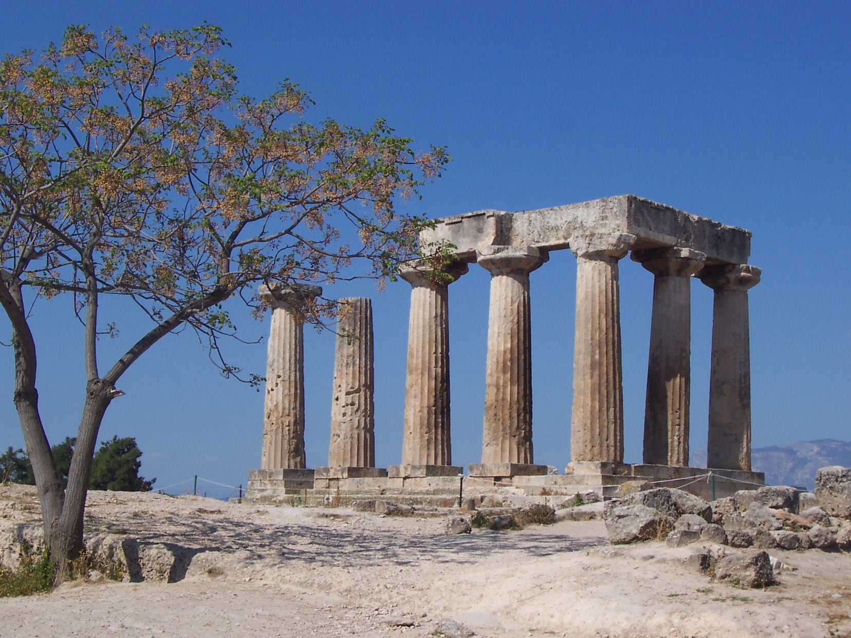 Temple of Apollo at Corinth